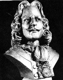 Antoine de la Mothe Cadillac (1658-1730)- soldier of fortune under Louis XIV. Founder of Detroit, 1701